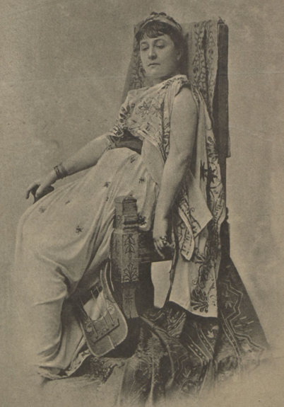 Jászai Mari as Medea